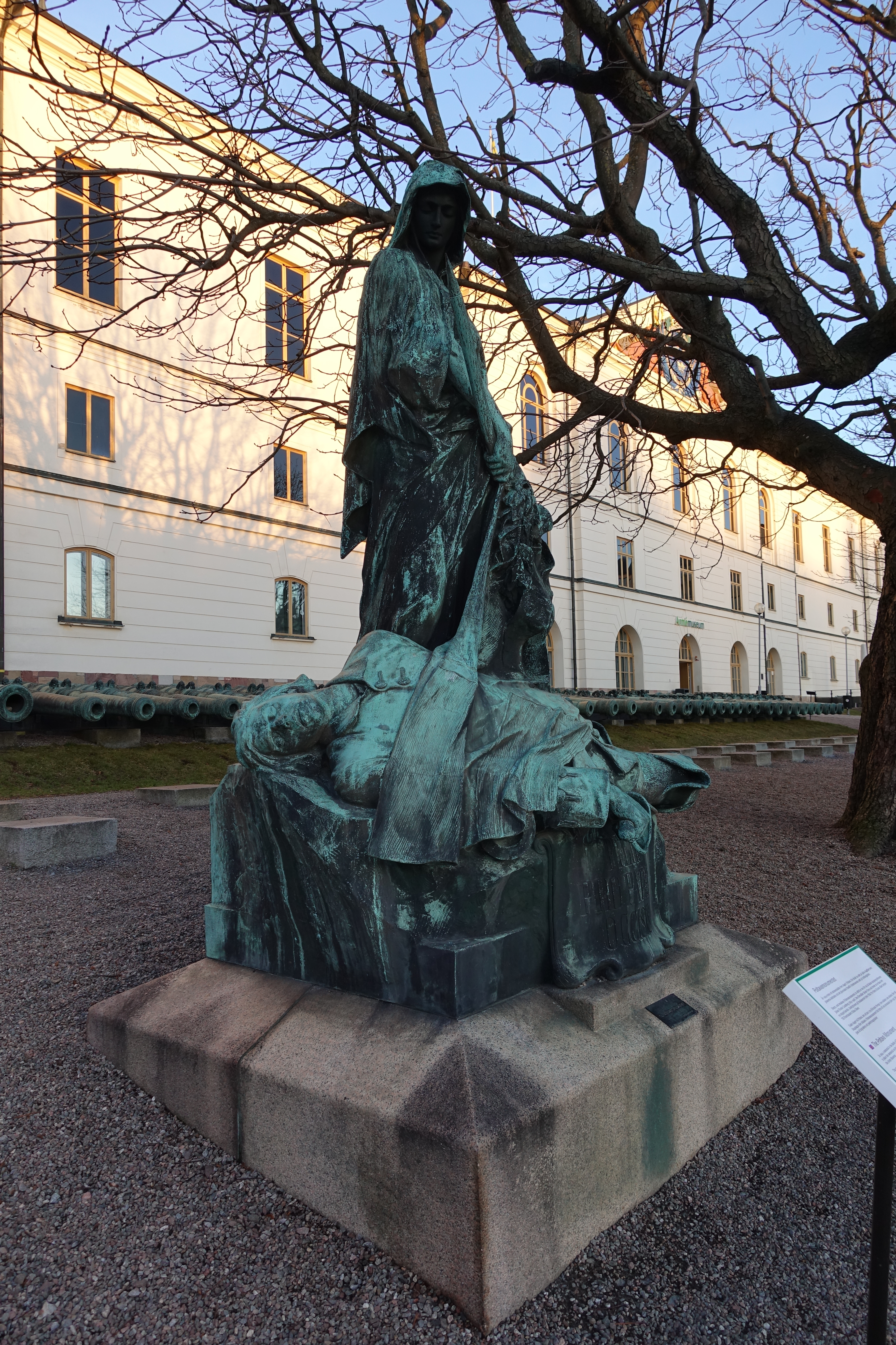 The Poltava Monument in Stockholm, Sweden